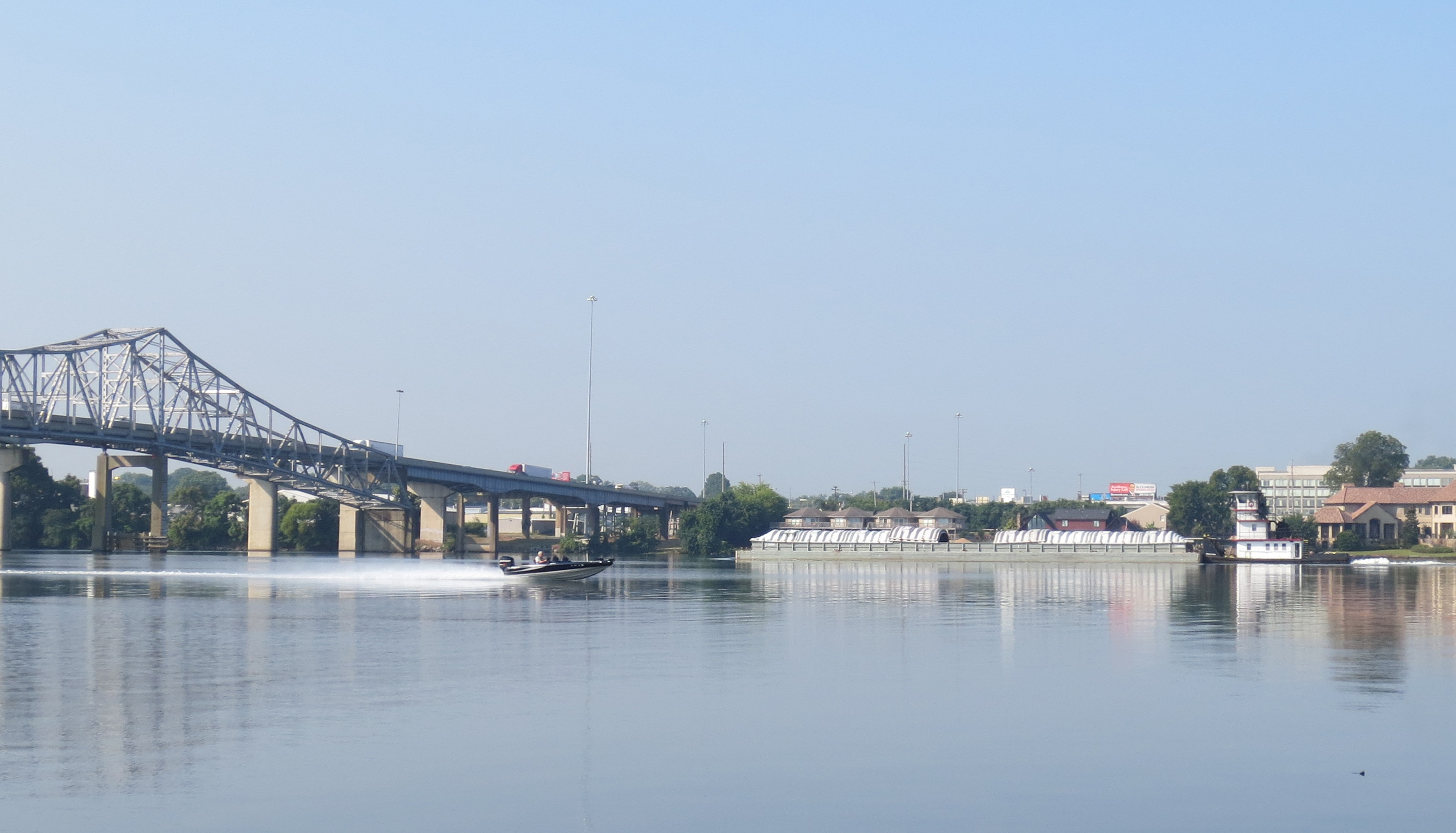 From north side of river at boat harbor next to the Hard Dock